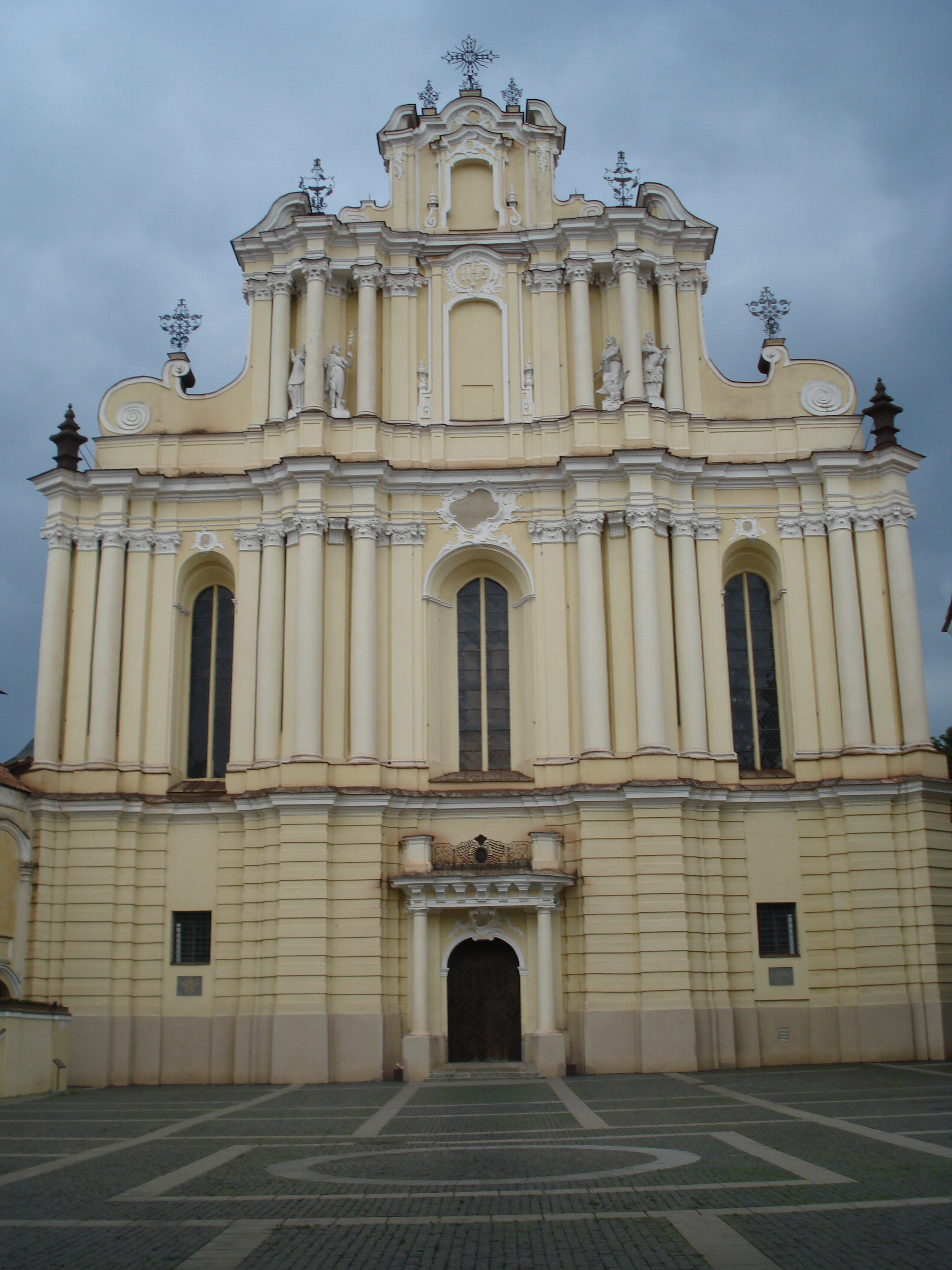 Church of St. Johns (Vilnius). 2007